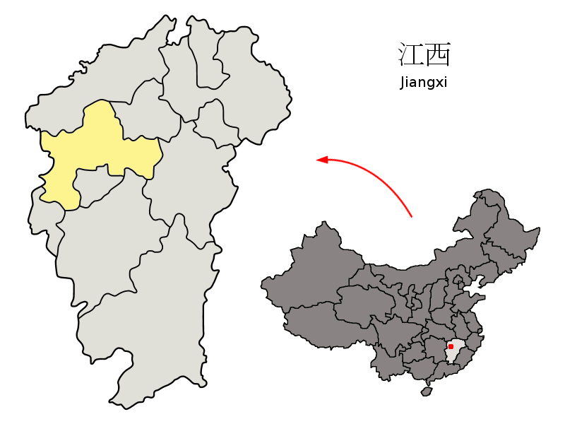 Location of Yichun Prefecture (yellow) within Jiangxi Province of China Map drawn in december 2007 using various sources, mainly : Jiangxi Province administrative regions GIS data: 1:1M, County level, 1990 Jiangxi Counties map from